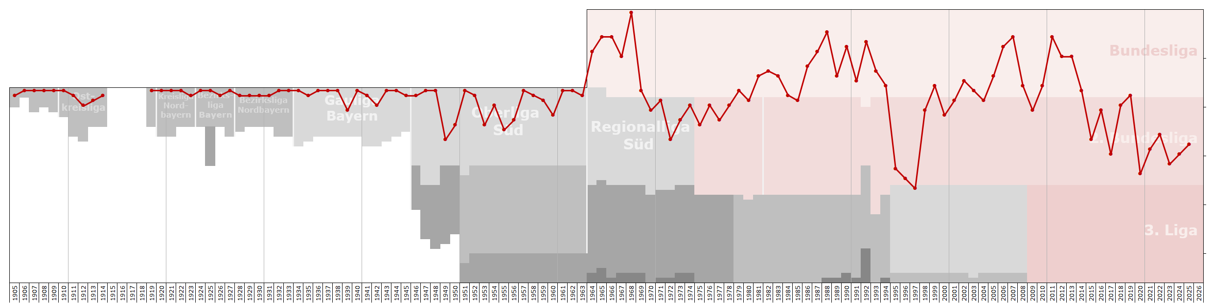 Chart of end-season table positions of 1. FC Nürnberg (Nuremberg) in the football league system of Germany. Data source: RSSSF, wikipedia, f-archiv.de, fussball.de